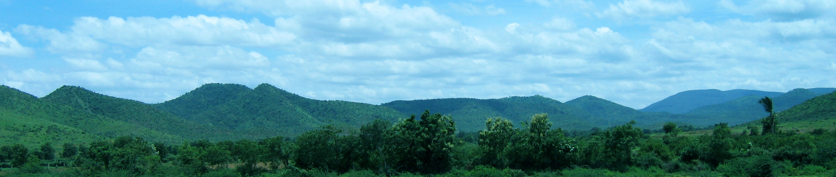 Eastern Ghats near Talakona, Chittor district - Landscapes from Andhra Pradesh, views from Indias South Central Railway